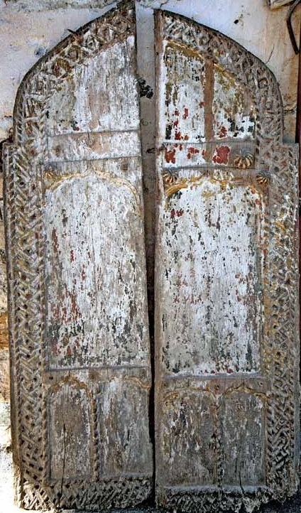 Royal Doors in Saint Mary Church in Bistrica, 17th Century